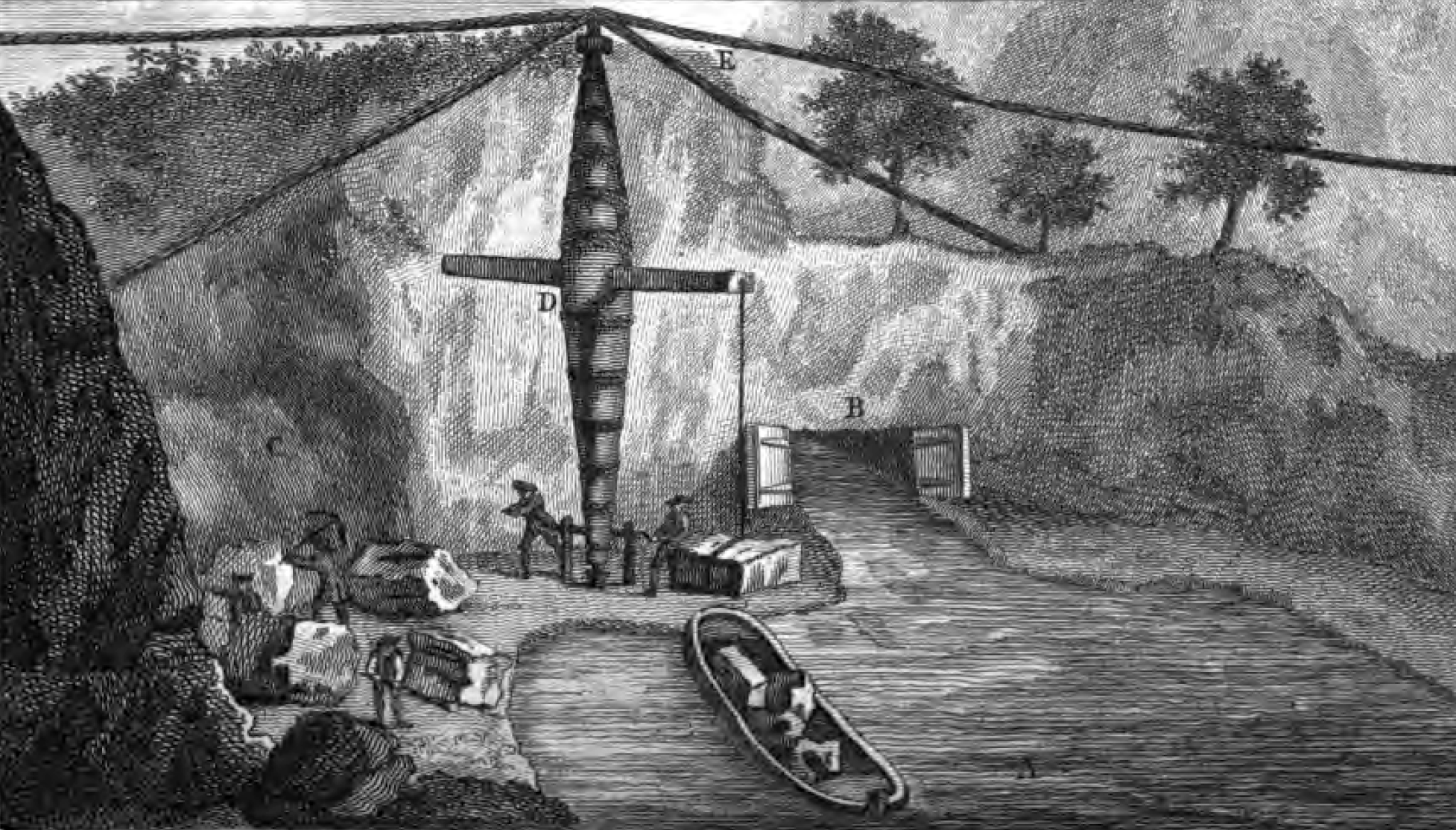 Worsley Delph, as shown in Arthur Young's 1771 book, A Six Months Tour Through the North of England. A - the navigation B - the mouth of the tunnel C - the quarry D - the crane E - ropes to hold the crane upright